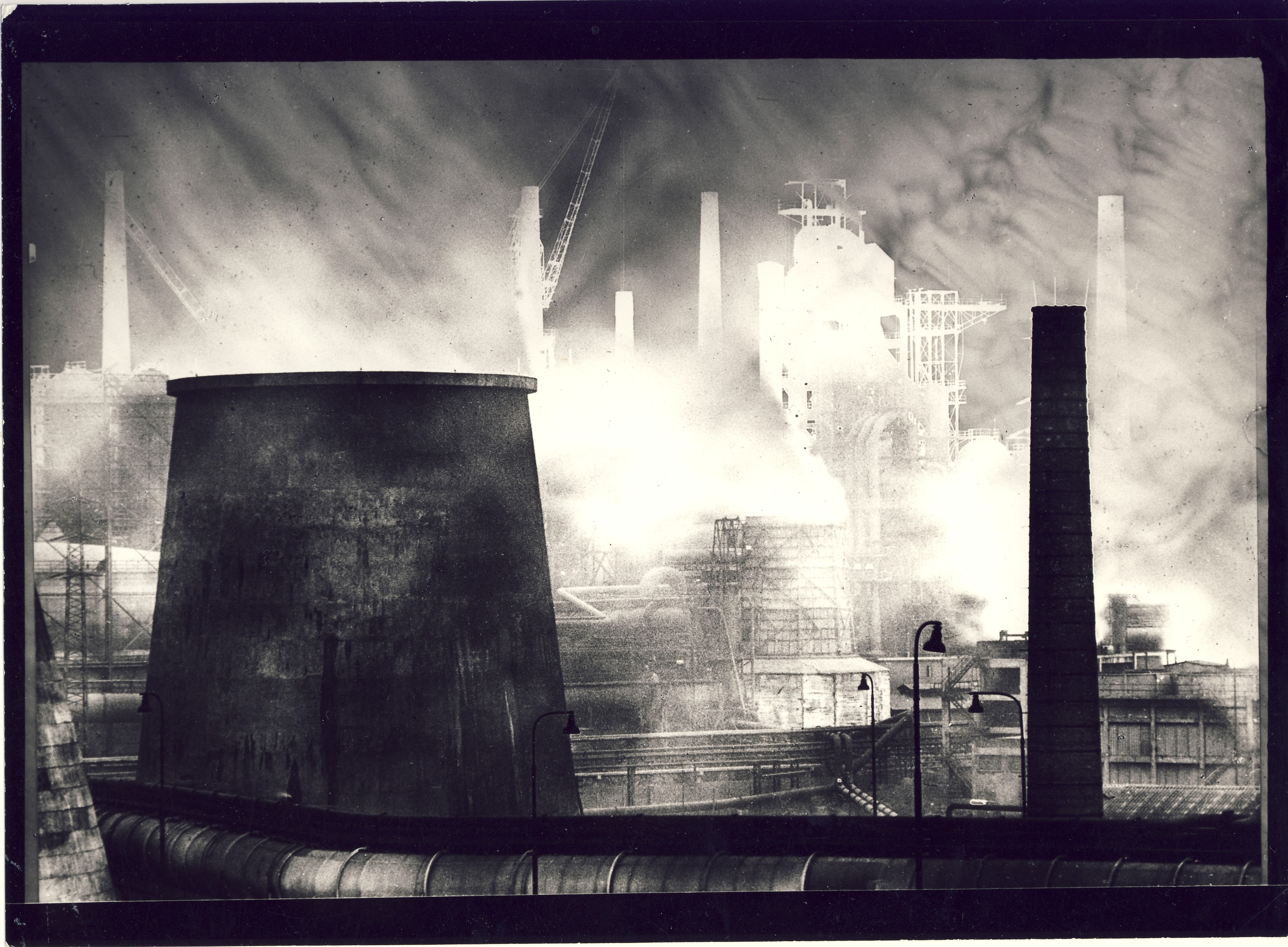 Jan Byrtus, Hutní proměny